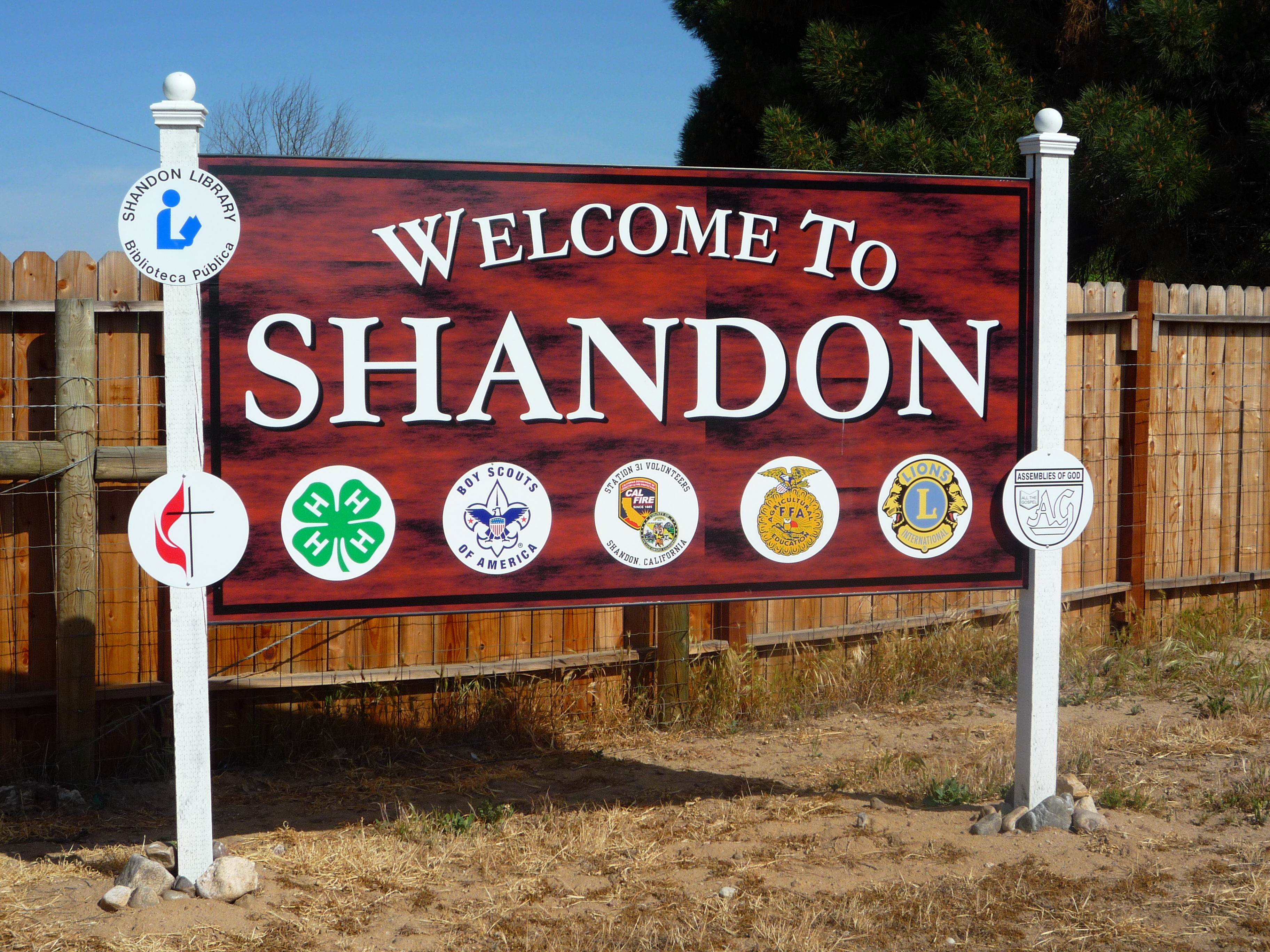 Entry Sign into Shandon Eagle Scout Project by Shandon resident